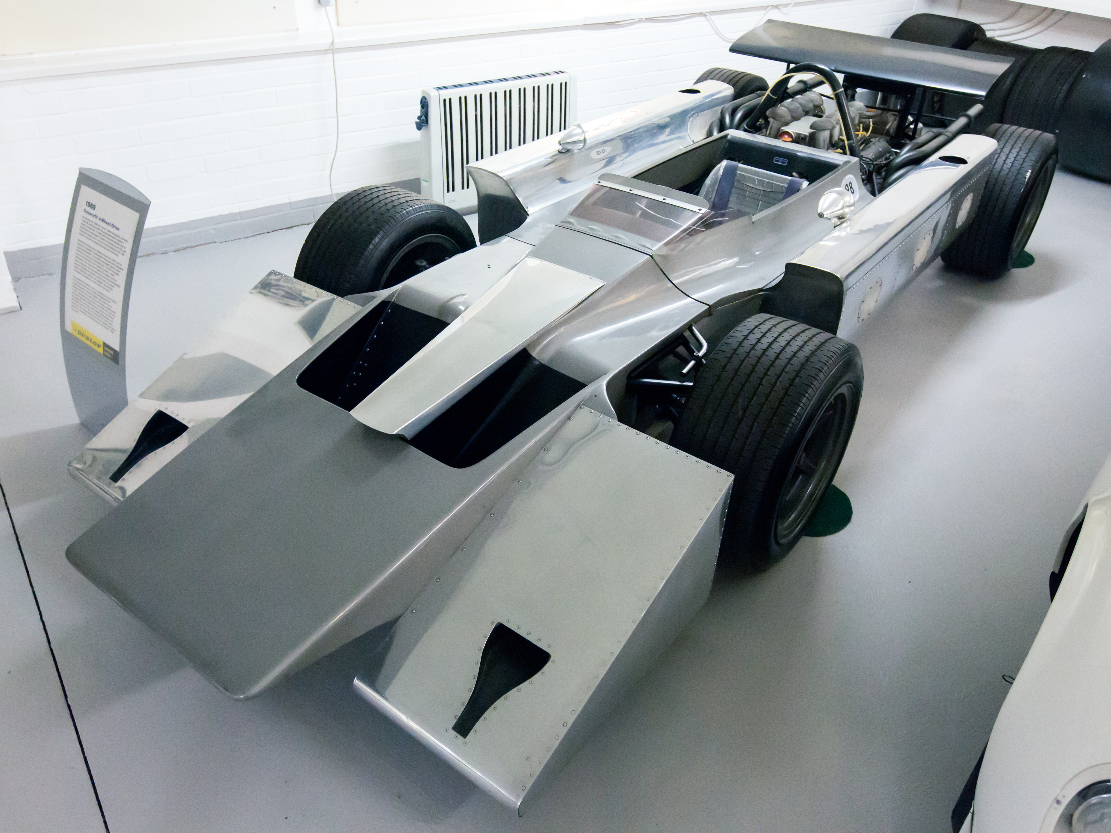 1969 Cosworth 4WD